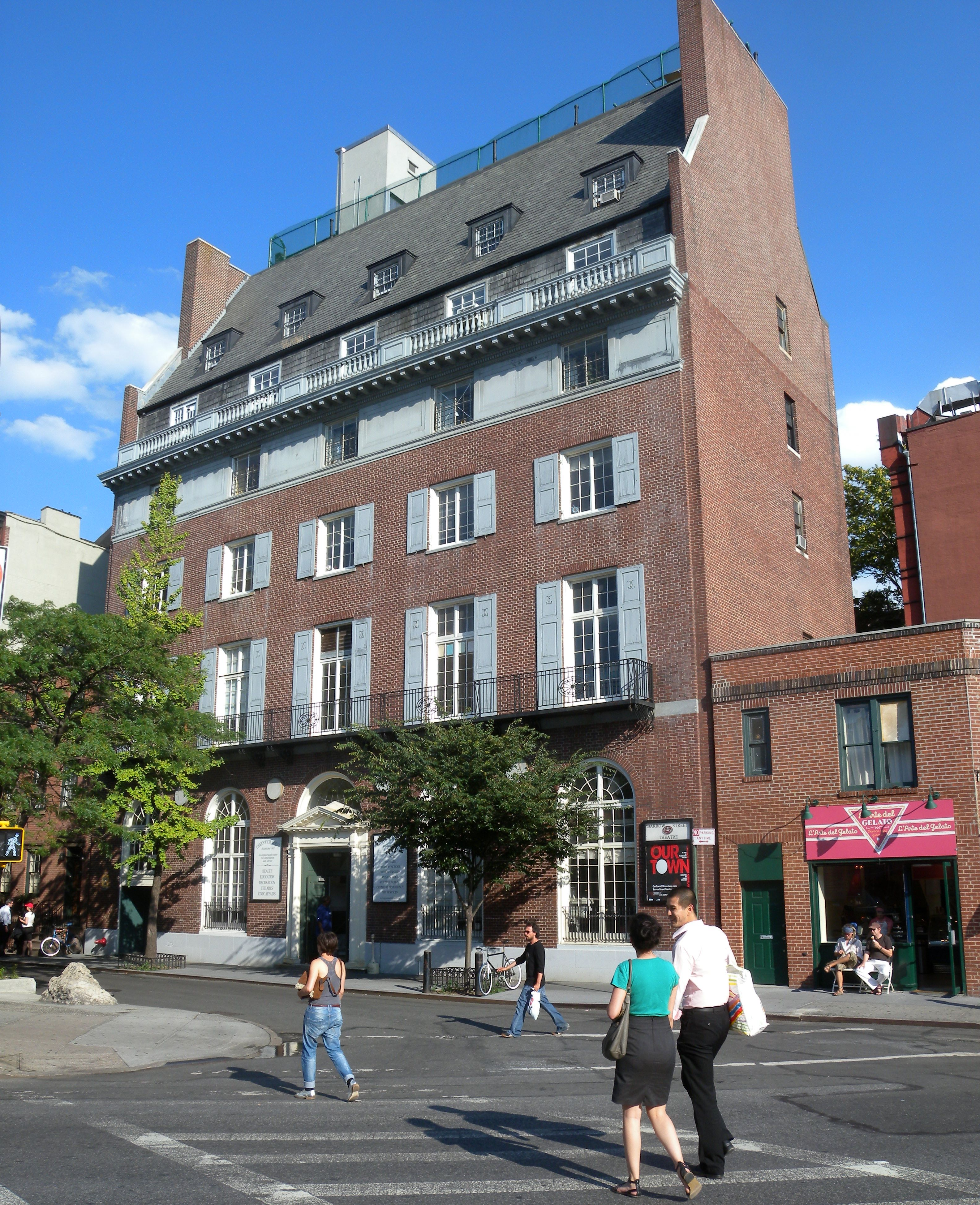 Looking east across 7th Ave at Greenwich House, home of Barrow Street Theater on a sunny afternoon.